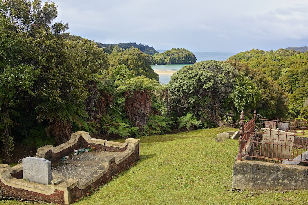 Graves of Norwegians on Stewart Island